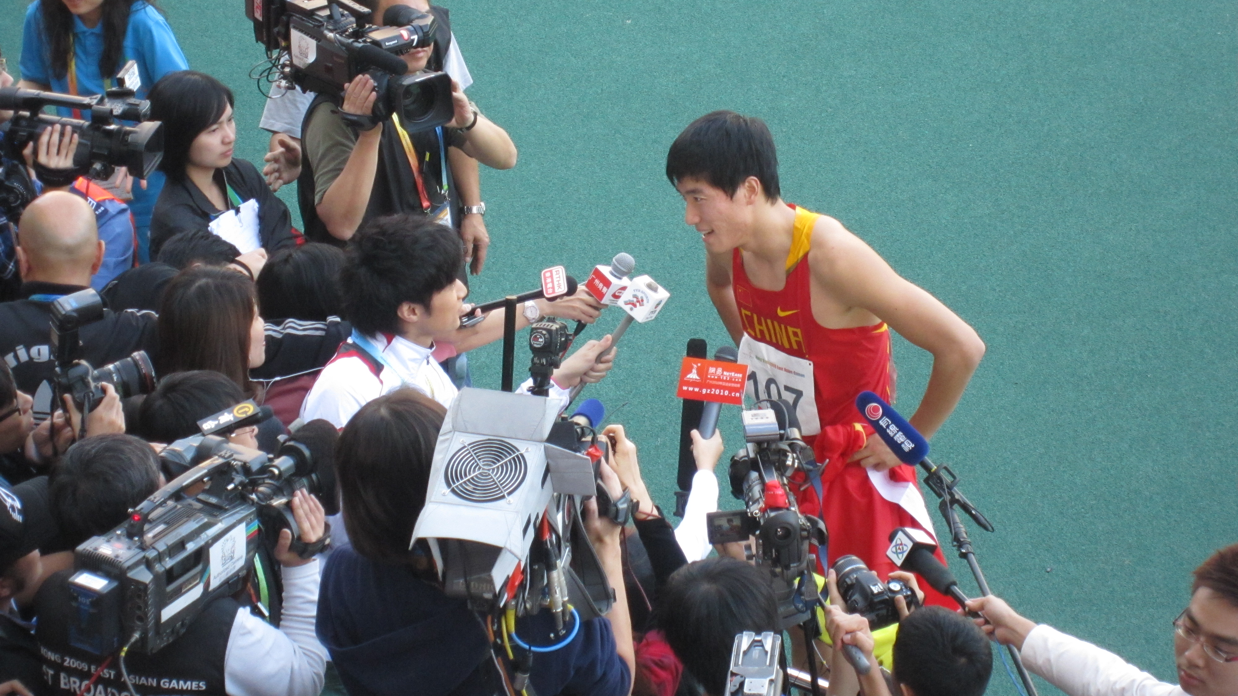 Hong Kong East Asian Games